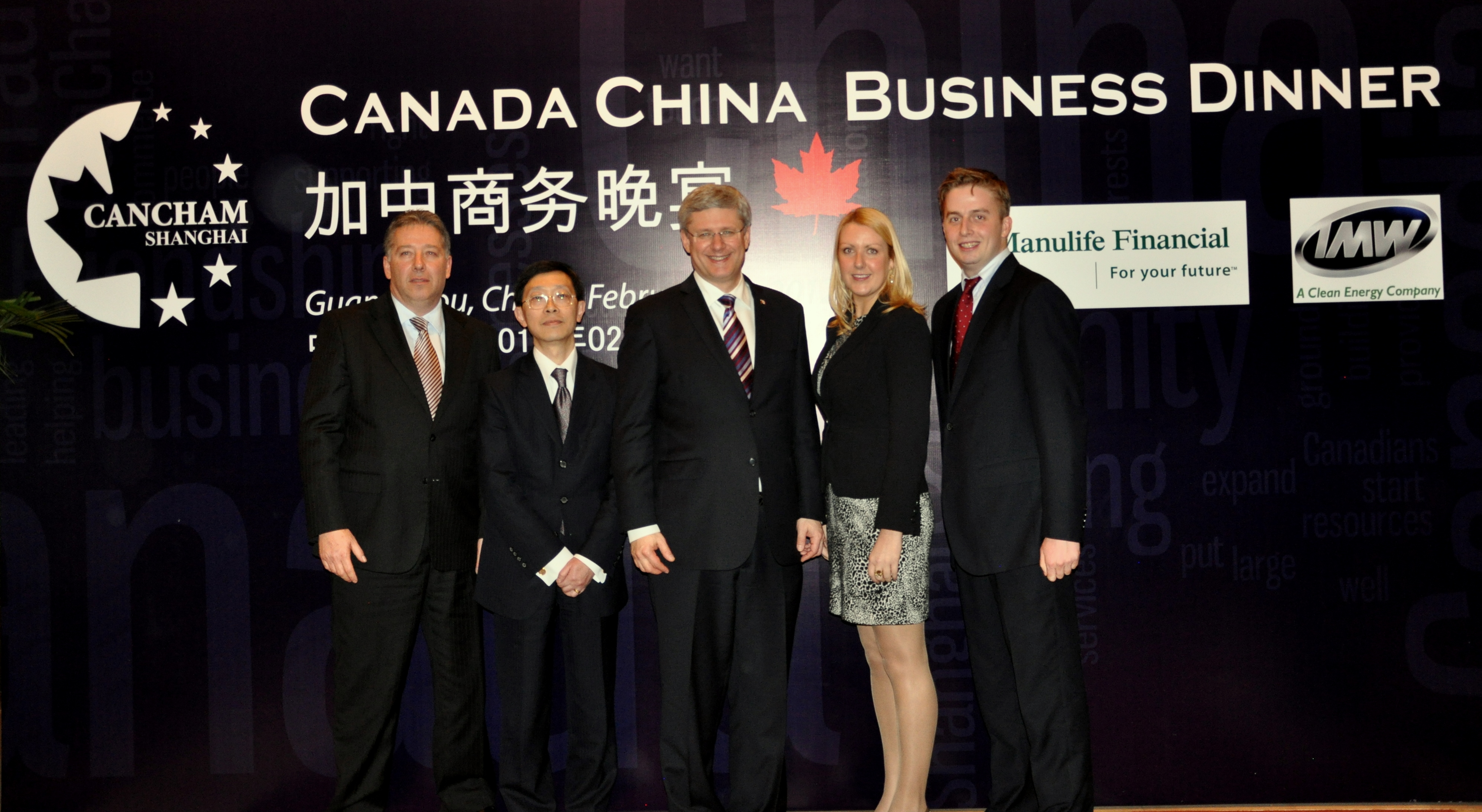 Canadian Prime Minister Stephen Harper with members of the Board of Directors of the Canadian Chamber of Commerce in Shanghai at the Canada China Business Dinner in Guangzhou, Feb 2012.jpg加拿大总理哈珀访粤 与上海加拿大商会成员一同出席加中商务晚宴